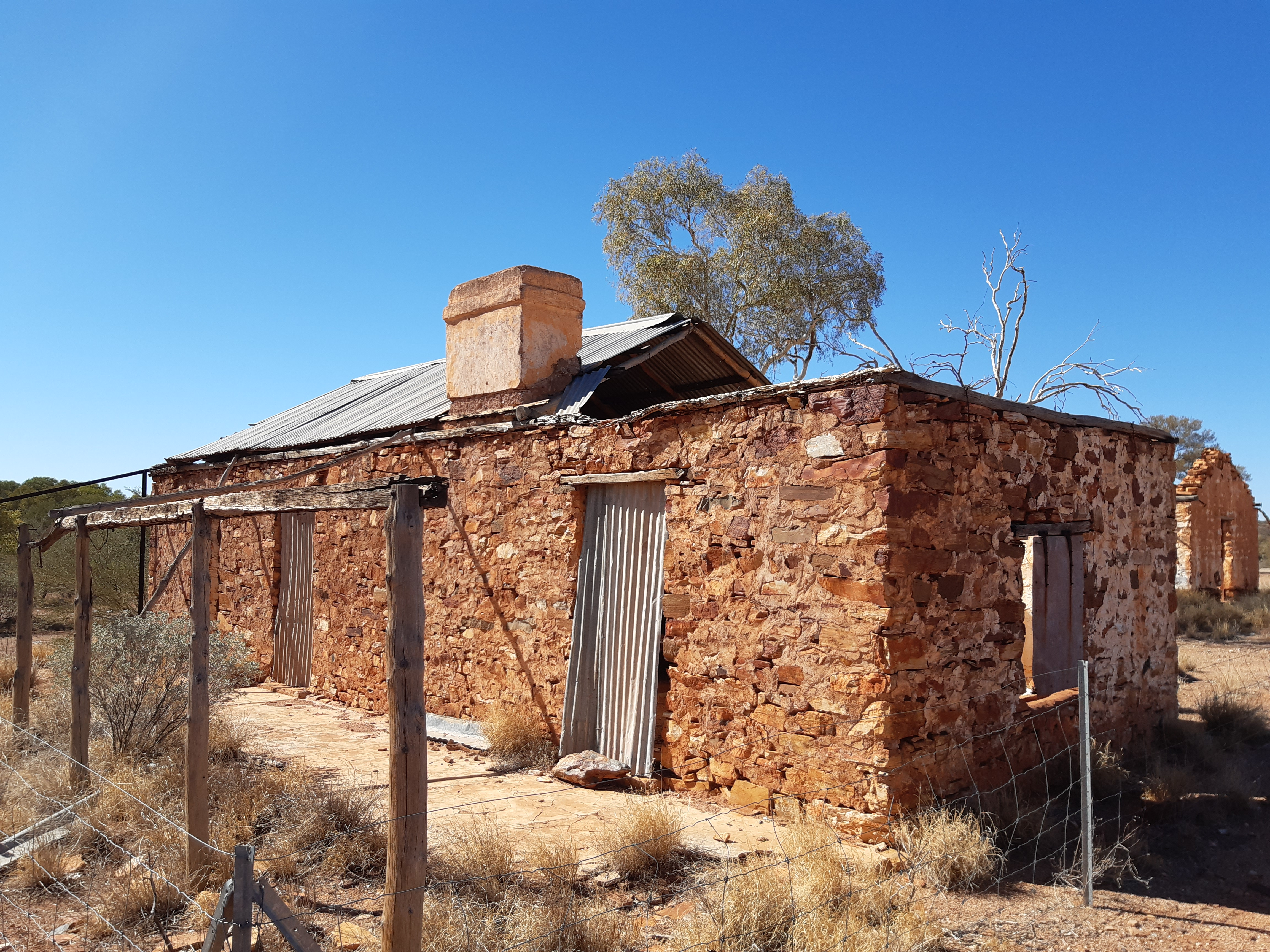 Original Cobra Station Homestead, Shire of Upper Gascoyne, Western Australia. The old homestead is heritage listed and dates back to 1906 but has since been replaced by the new one 9 km to the east.